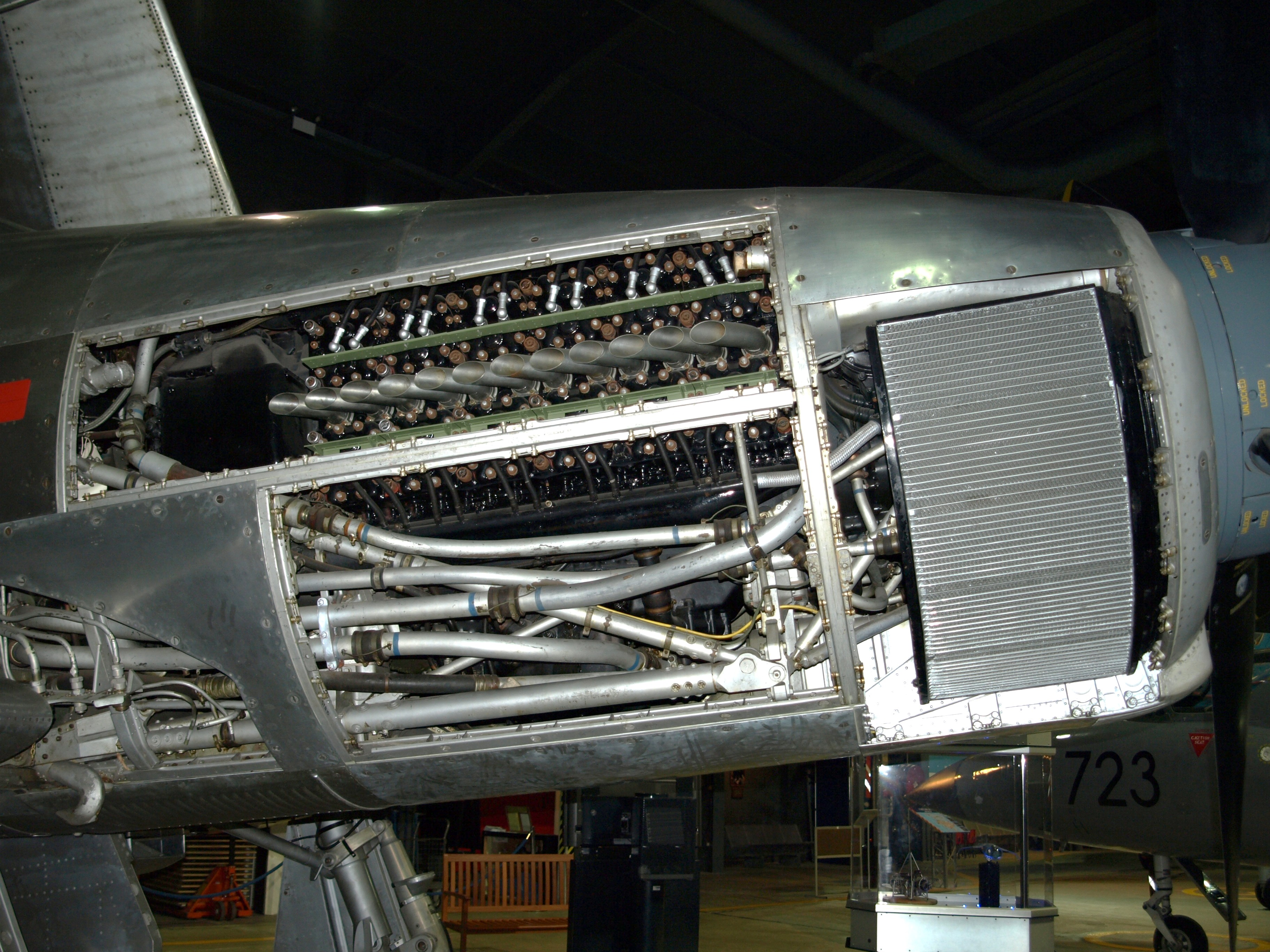 Rolls-Royce Eagle 22 aero engine installed in a prototype Westland Wyvern at the Fleet Air Arm Museum.